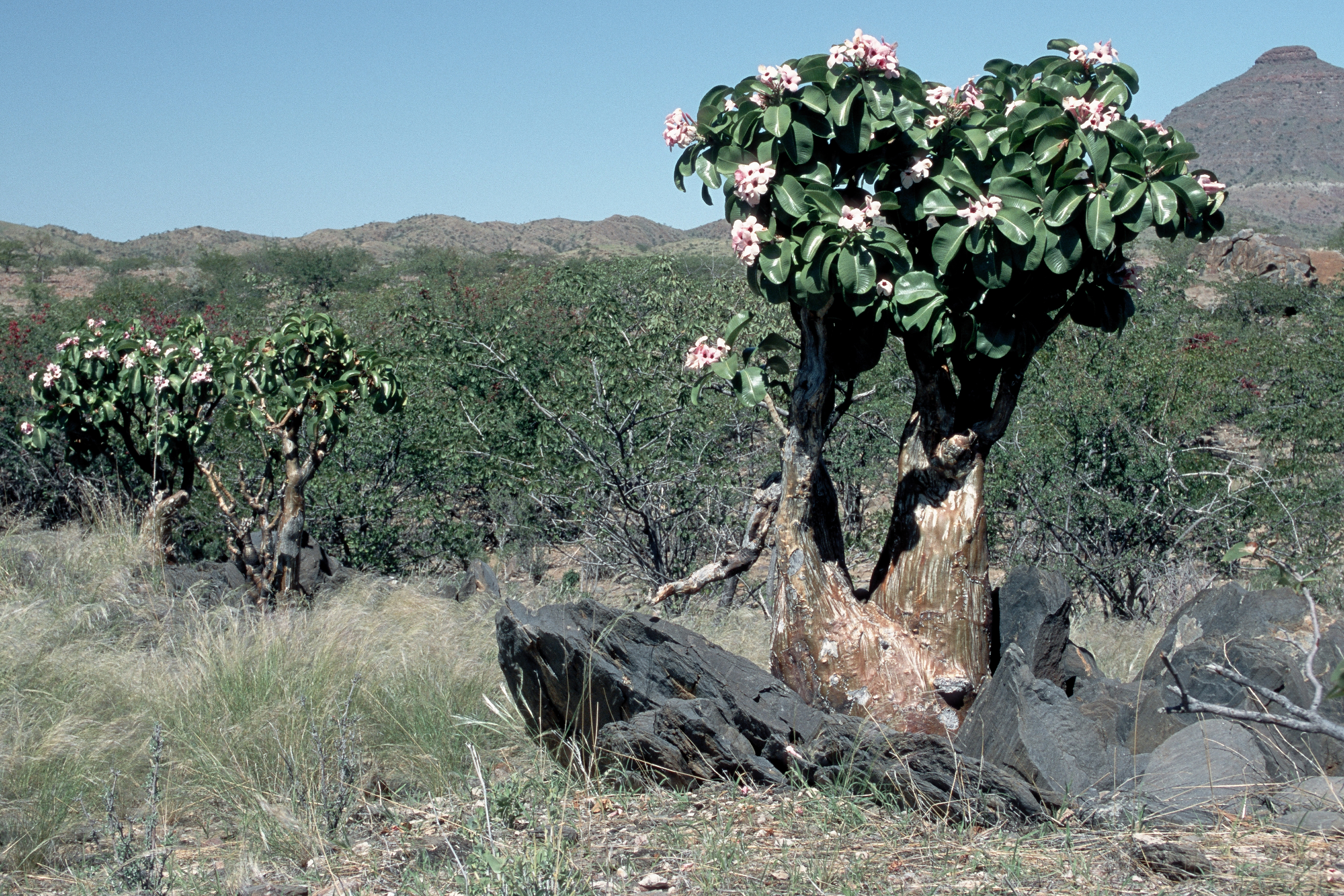 Adenium boehmianum, Bushman´s Poison